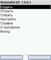 MobileBASIC 1.8.6.1 on NHAL Win32 Emulator